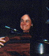 Virginia Trimble being introduced at the 75th Anniversary of The Shapley - Curtis Debate